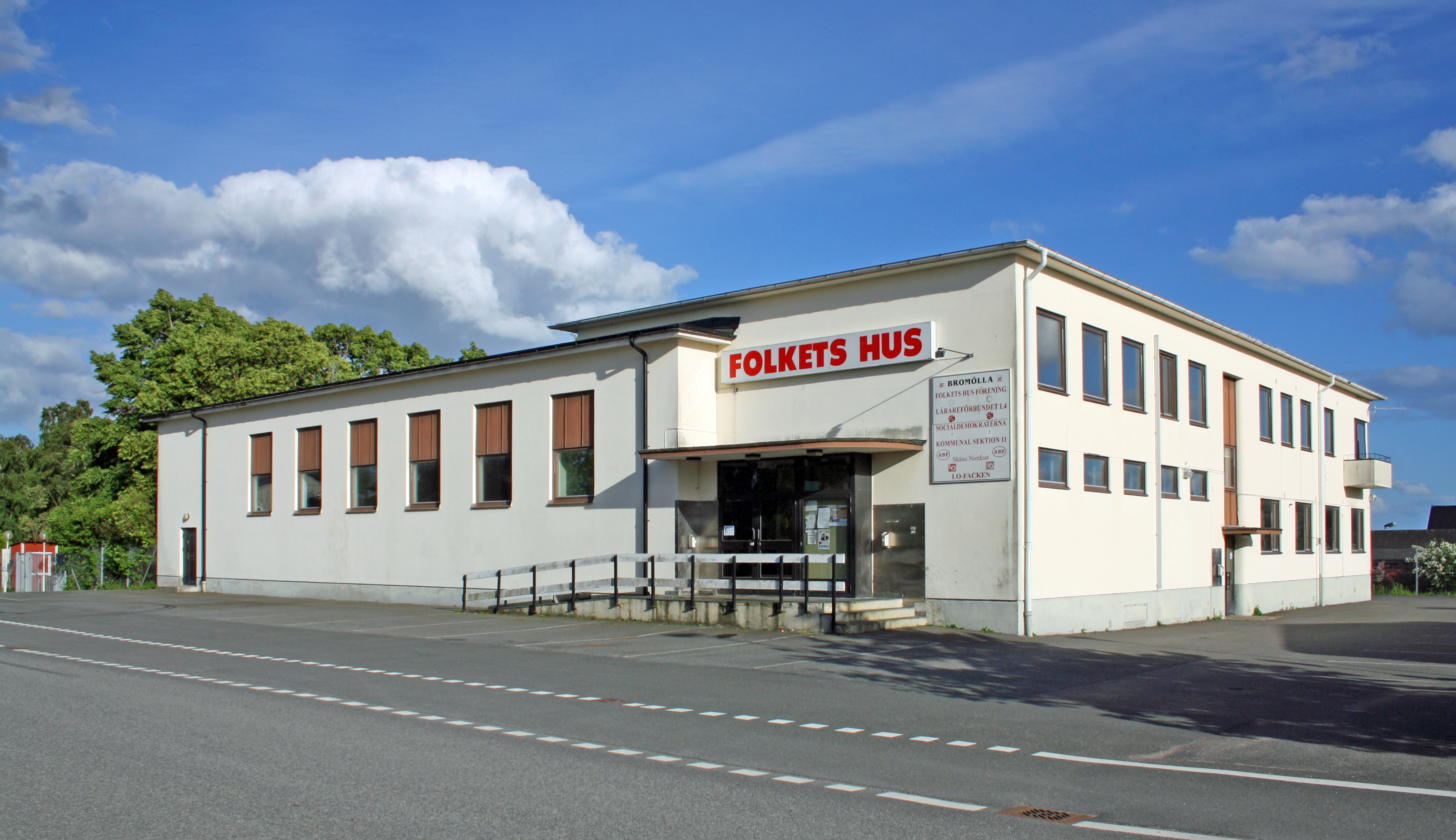 People's House of Bromölla, Sweden, 25 June 2017.